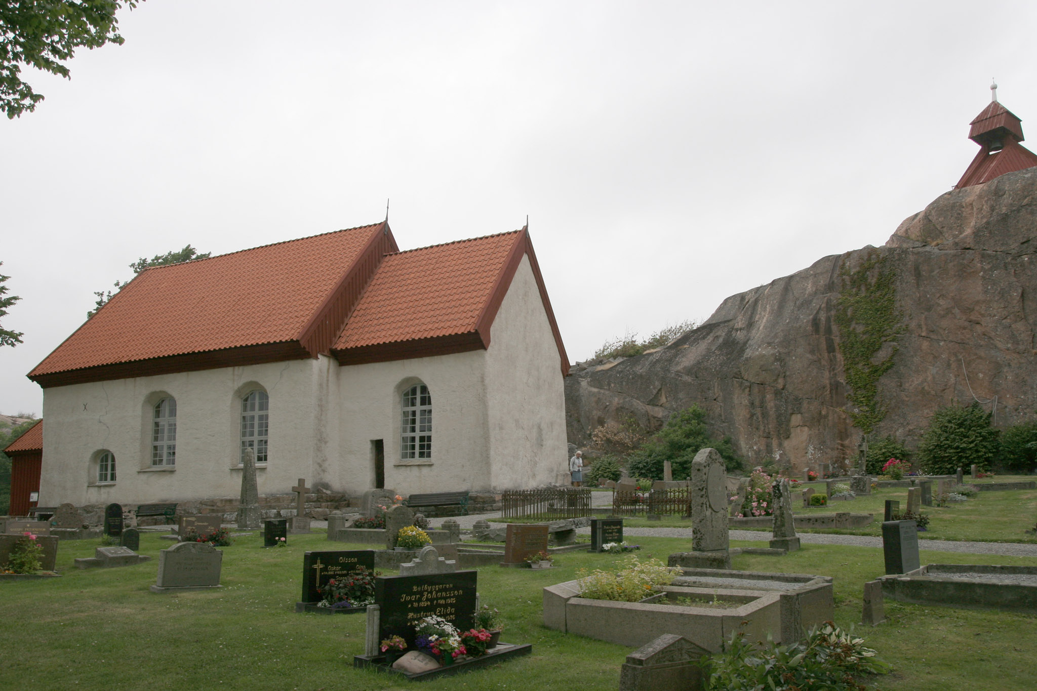 The old romanesque church of Svenneby in Tanum (Bohuslän, Sweden)